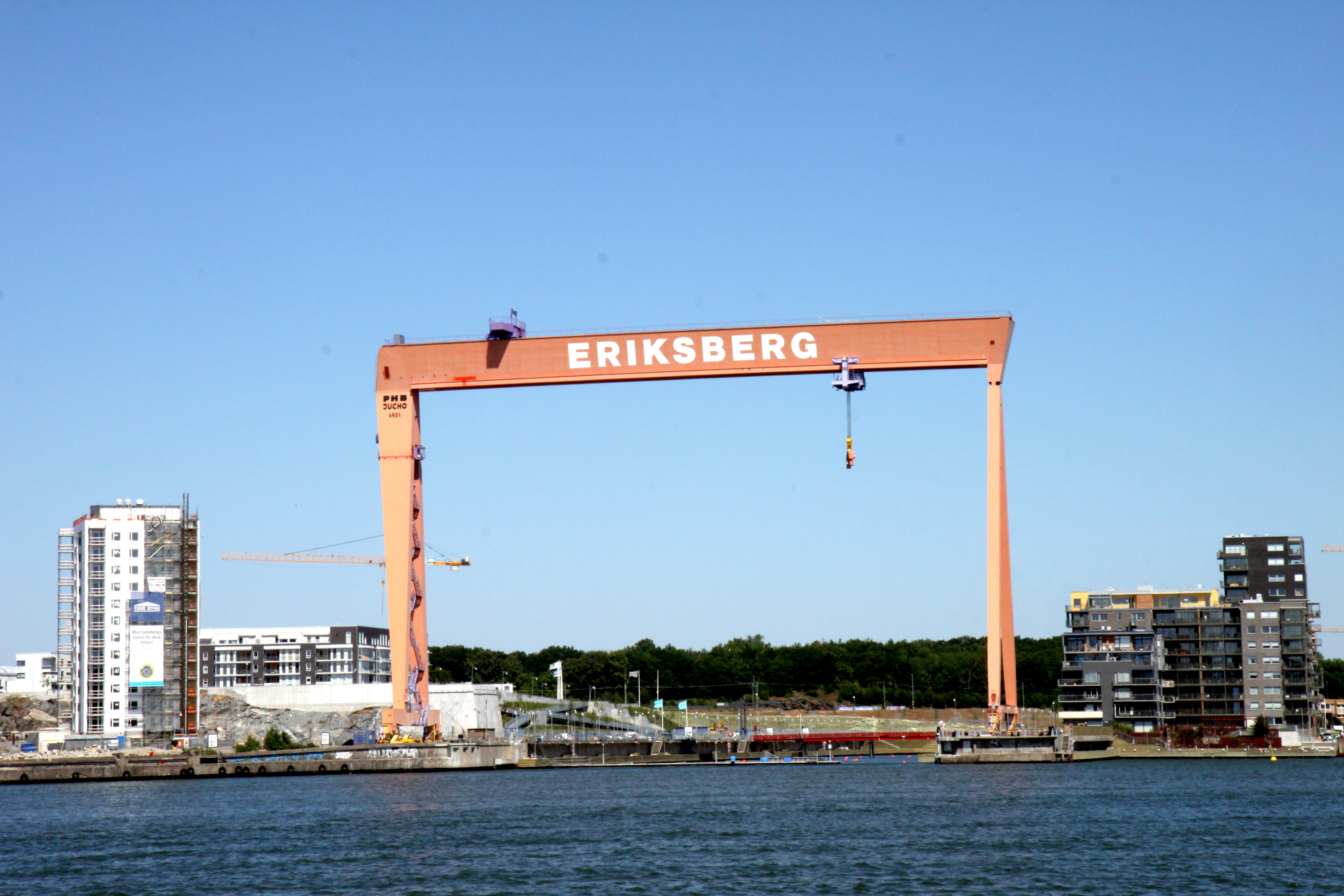 The crane at the old Shipyard Eriksberg.